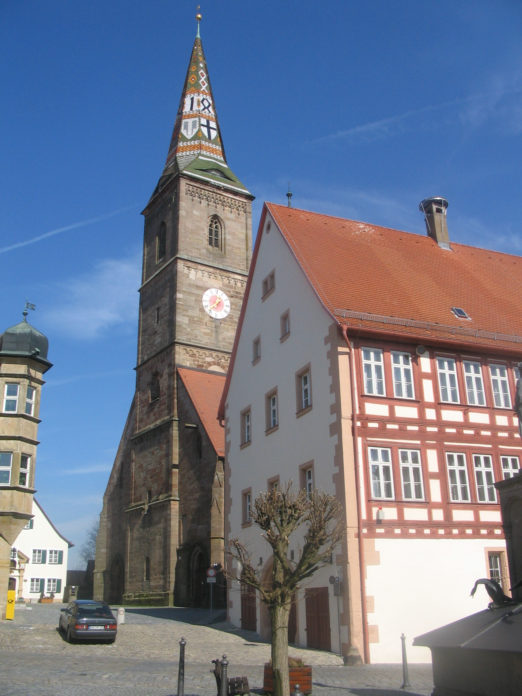 The church "Liebfrauenmünster" in Wolframs-Eschenbach. The building on the right is the old town hall.